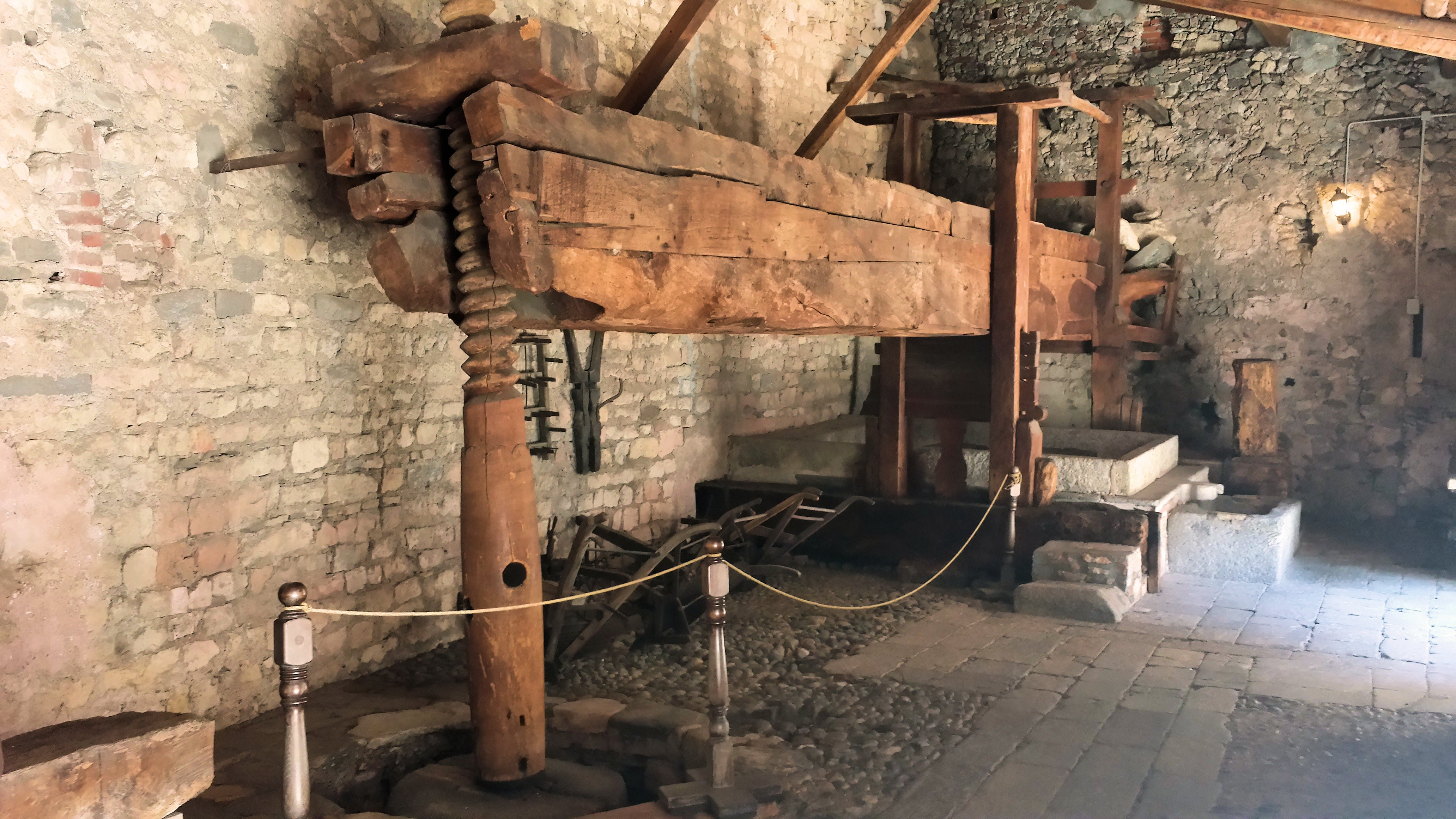 Winepress in the Castle Rocca d’Angera in Italy